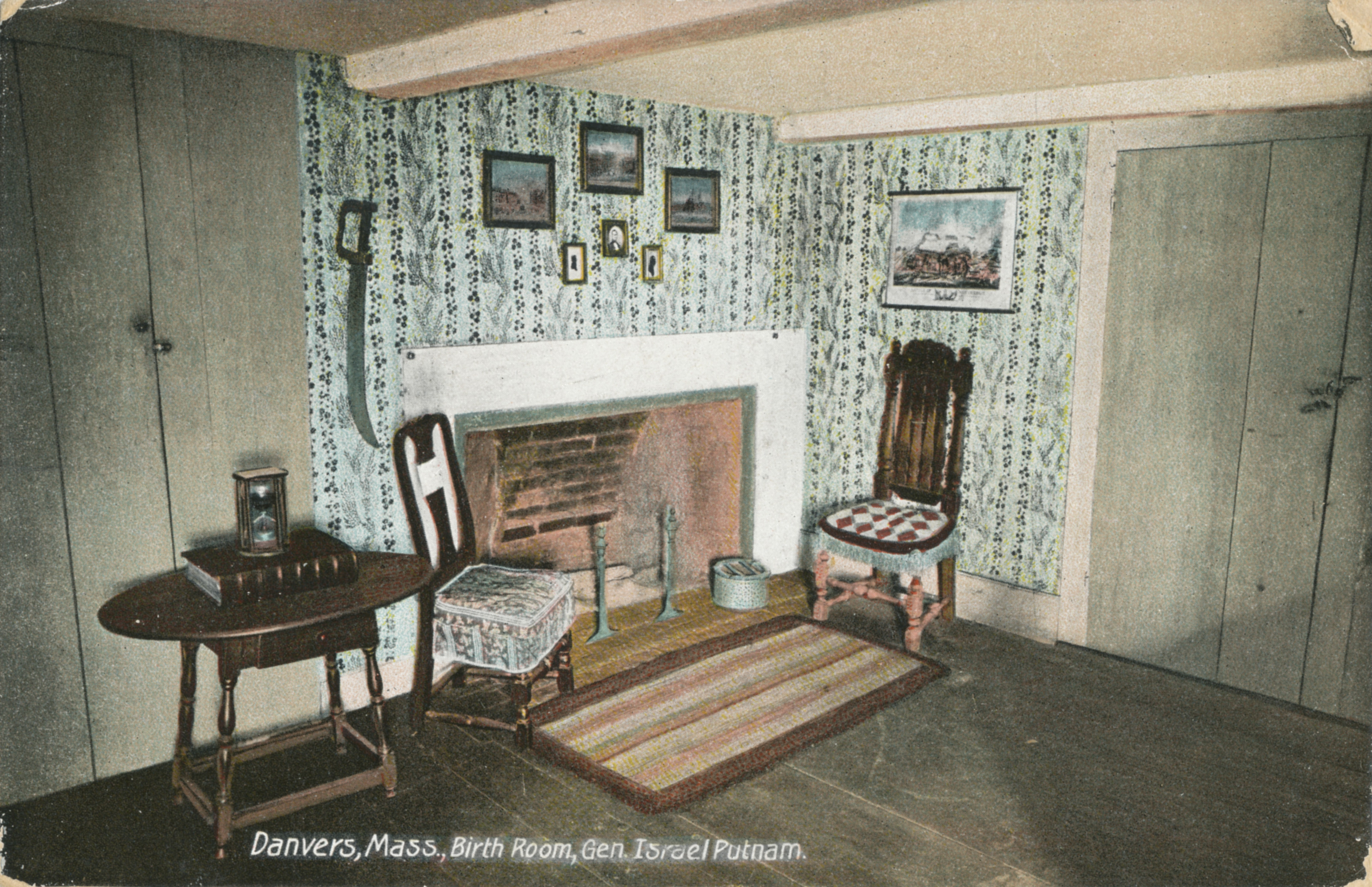 Postcard depicting the birth room of Gen. Israel Putnam